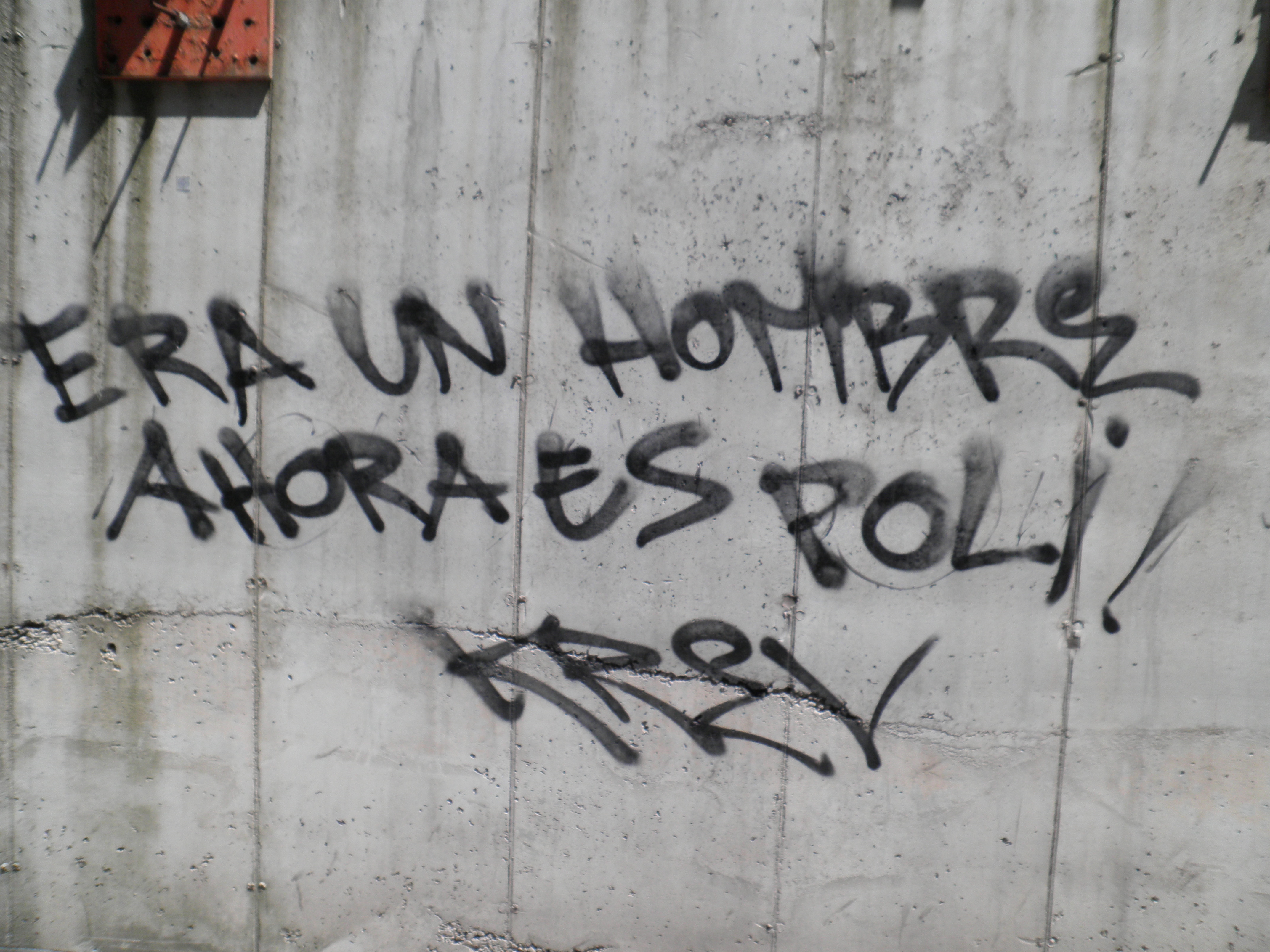 Era un hombre, ahora es poli (He was a man, now he is a cop). Donostia (Easo street). Basque Country.